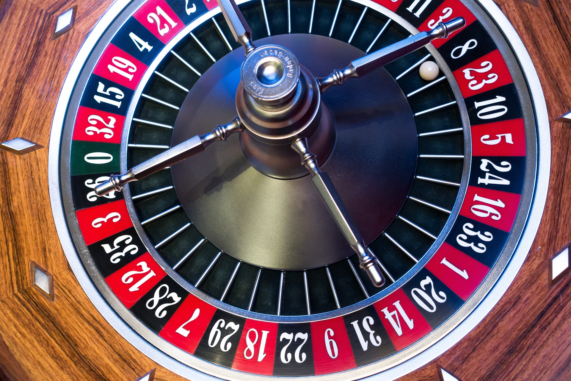 Image of roulette table